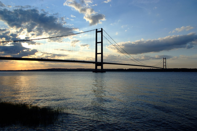 The Humber Bridge, England.Photo taken at high tide, from the south bank.